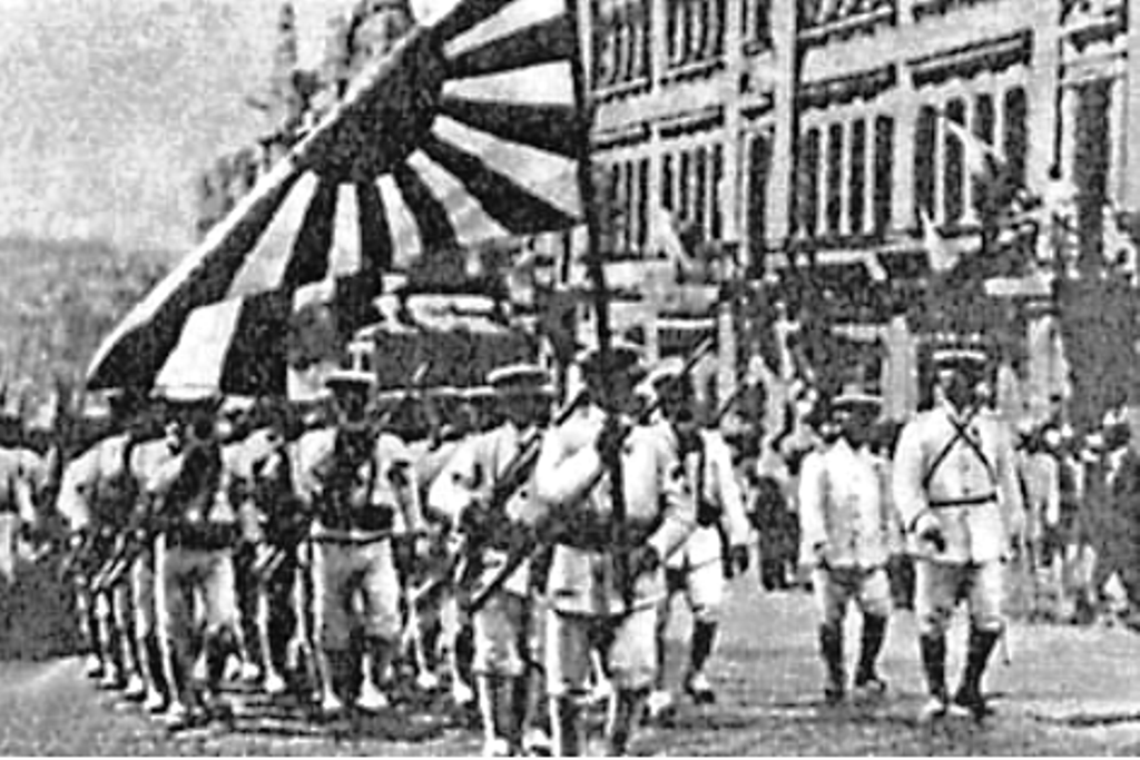 Japanese troops in Vladivostok in 1918